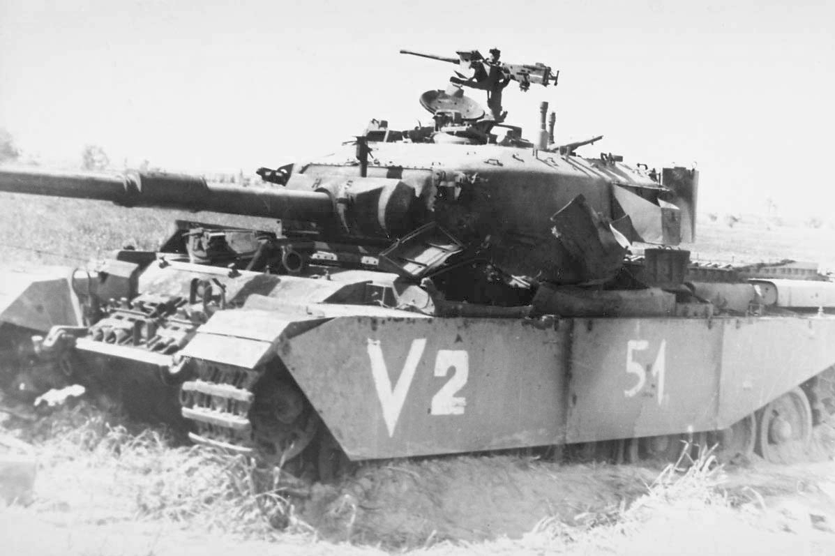 Destroyed Israeli Centurion tank. Al Karama Battle Aftermath, 21 March 1968